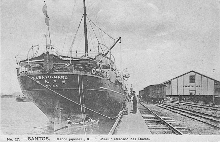 Kasato Maru ship docking in warehouse n.14 in Port of Santos for disembarkment of first Japanese immigrants in Brazil.